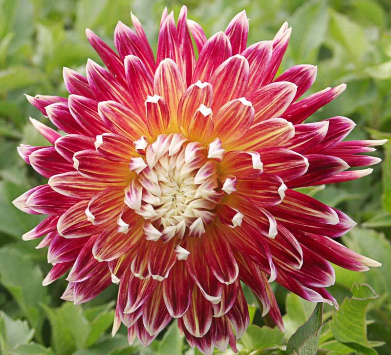 Fully Double Dahlia 'Akita', hybridized by Konishi, 1986